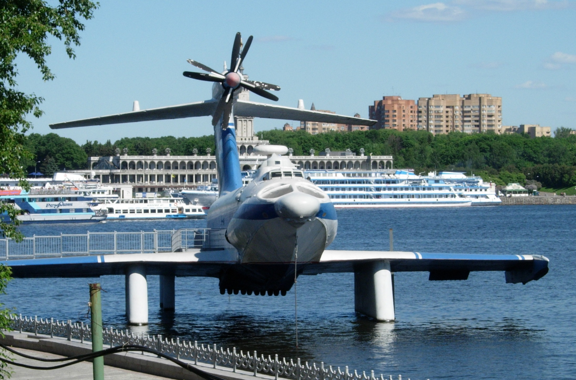 The part of open air branch of Russian Navy museum on river Moskva. The A-90 is not a conventional aircraft, but uses the ground effect to fly a few meters above the surface. Thus it is properly called GEV or ground effect vehicle or ekranoplan in Russian. A-90 Orlyonok in Wikipedia.